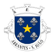 Coat of arms of S. João